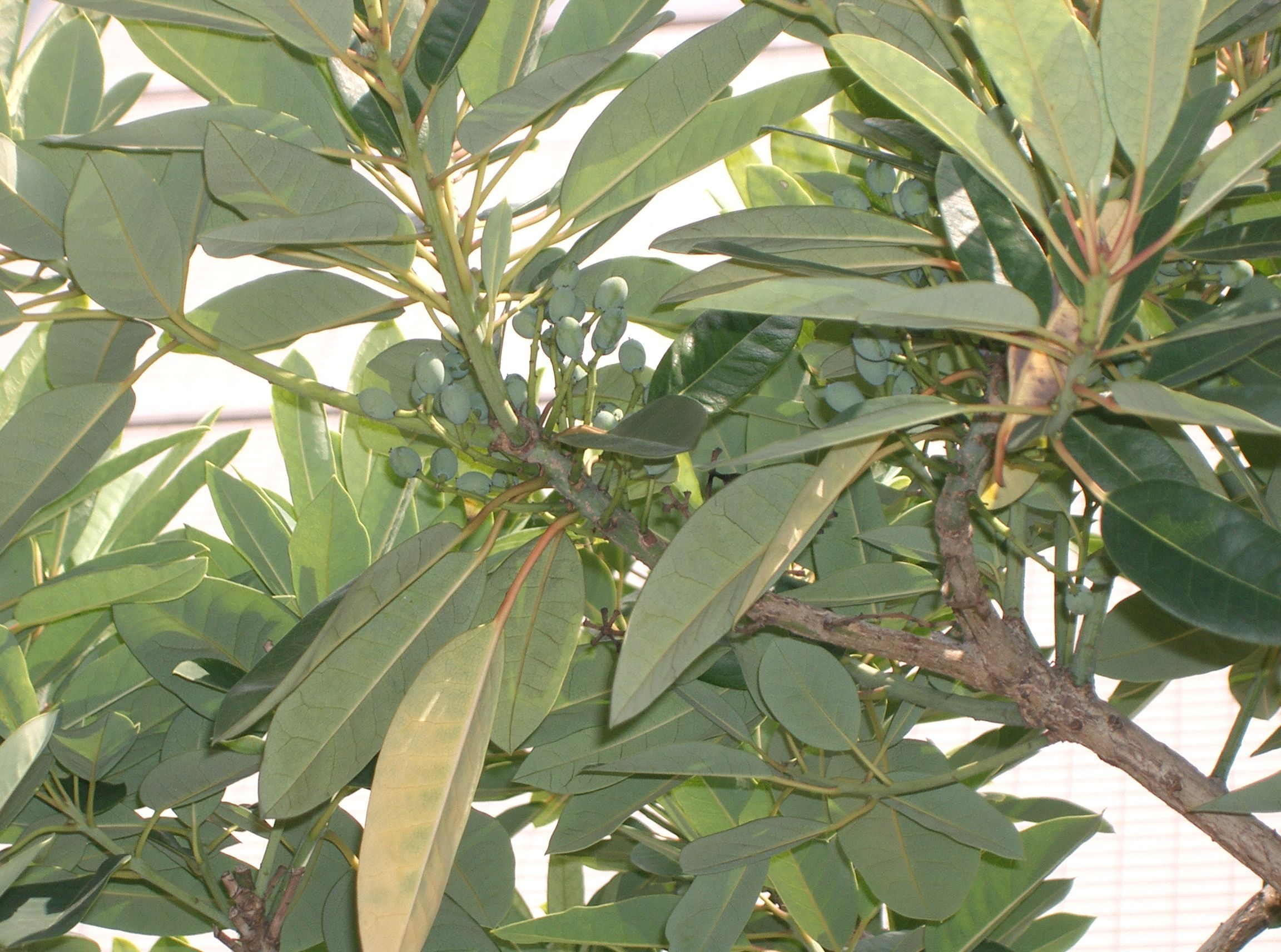 Daphniphyllum macropodum